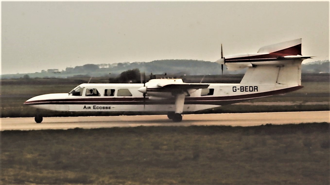 G-BEDR a Britten-Norman Trislander of Air Ecosse at Aberdeen Airport, Scotland